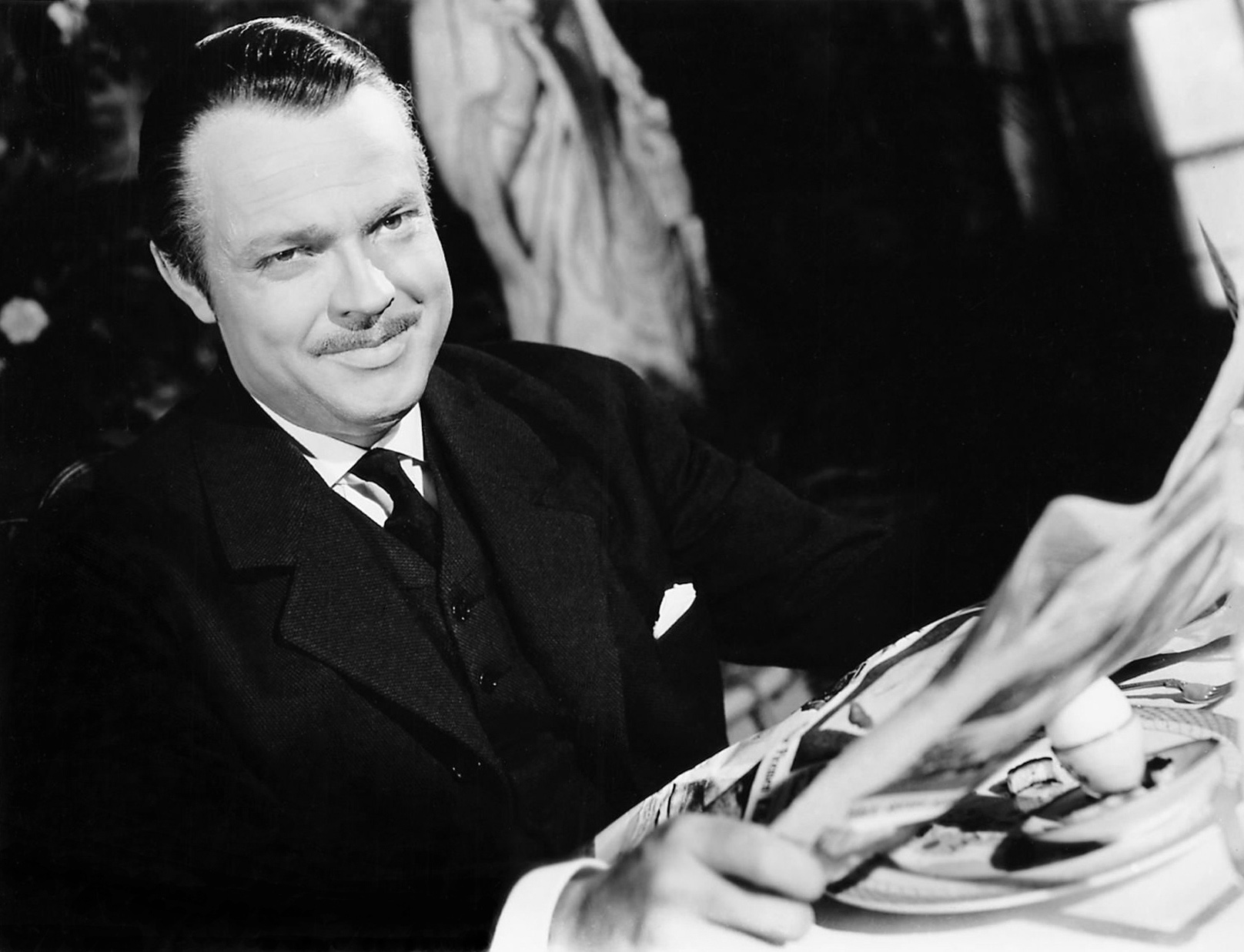 Promotional still for the 1941 film Citizen Kane